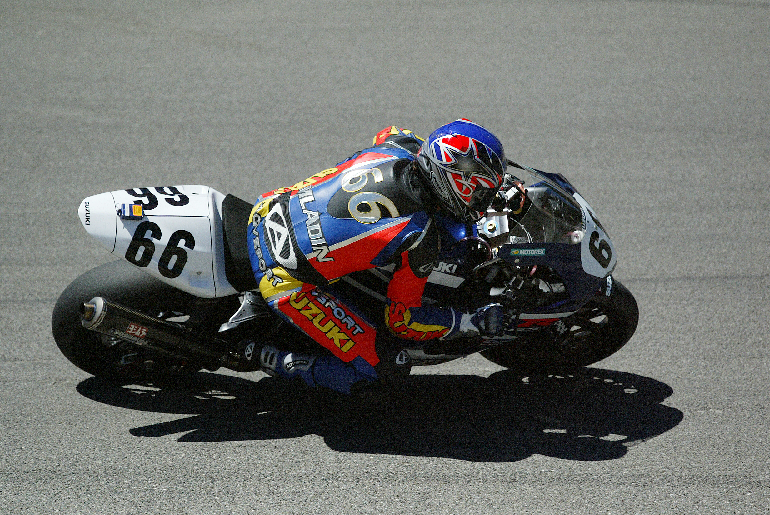 Mat Mladin riding for Suzuki in the Australian Championship